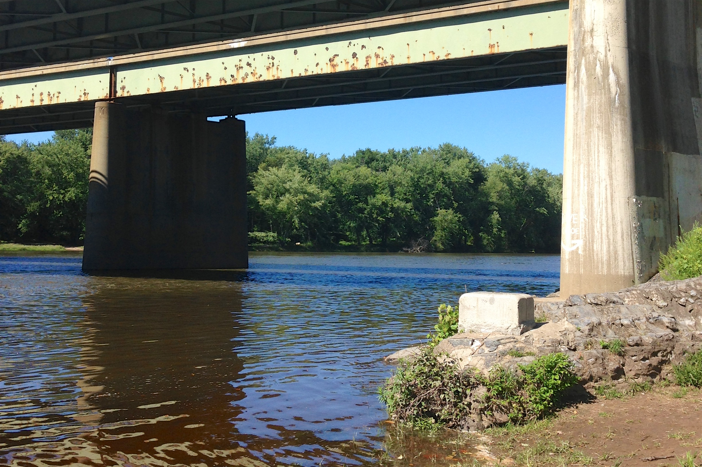 View of the Tri-States Monument marking the boundary of the states of New Jersey, New York, and Pennsylvania looking north along the Delaware River marking the boundary between New York and Pennsylvania. The bridge carries Interstate 84 between New York and Pennsylvania.